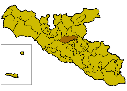 Locator map of Sant Angelo Muxaro, Italy